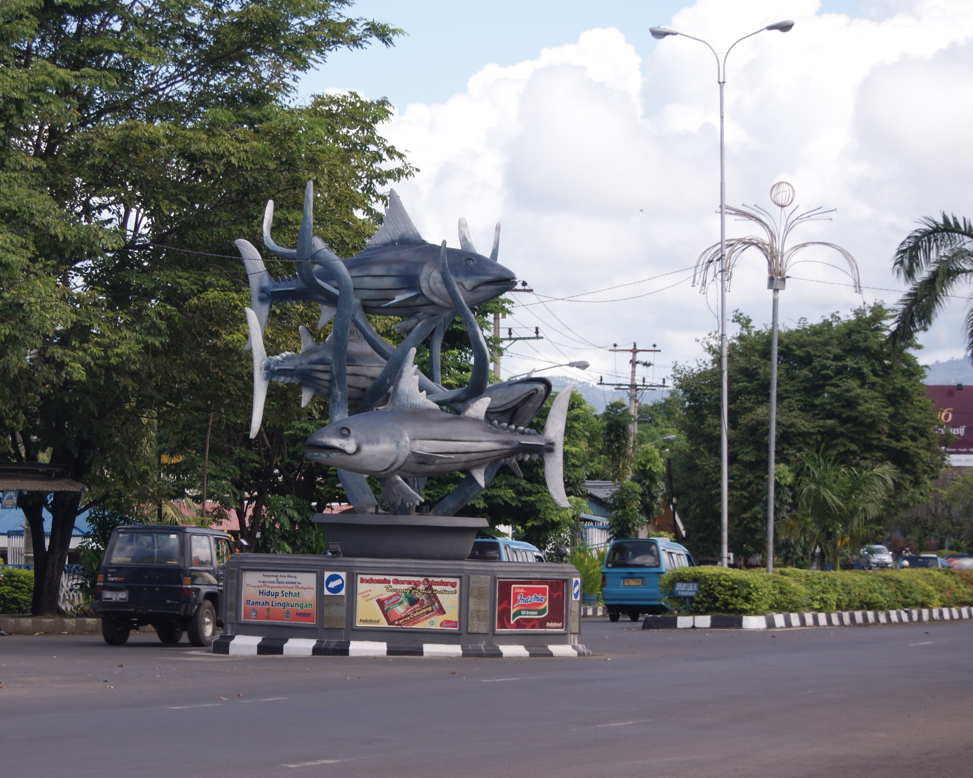 Tuna Monument, Bitung, North Sulawesi